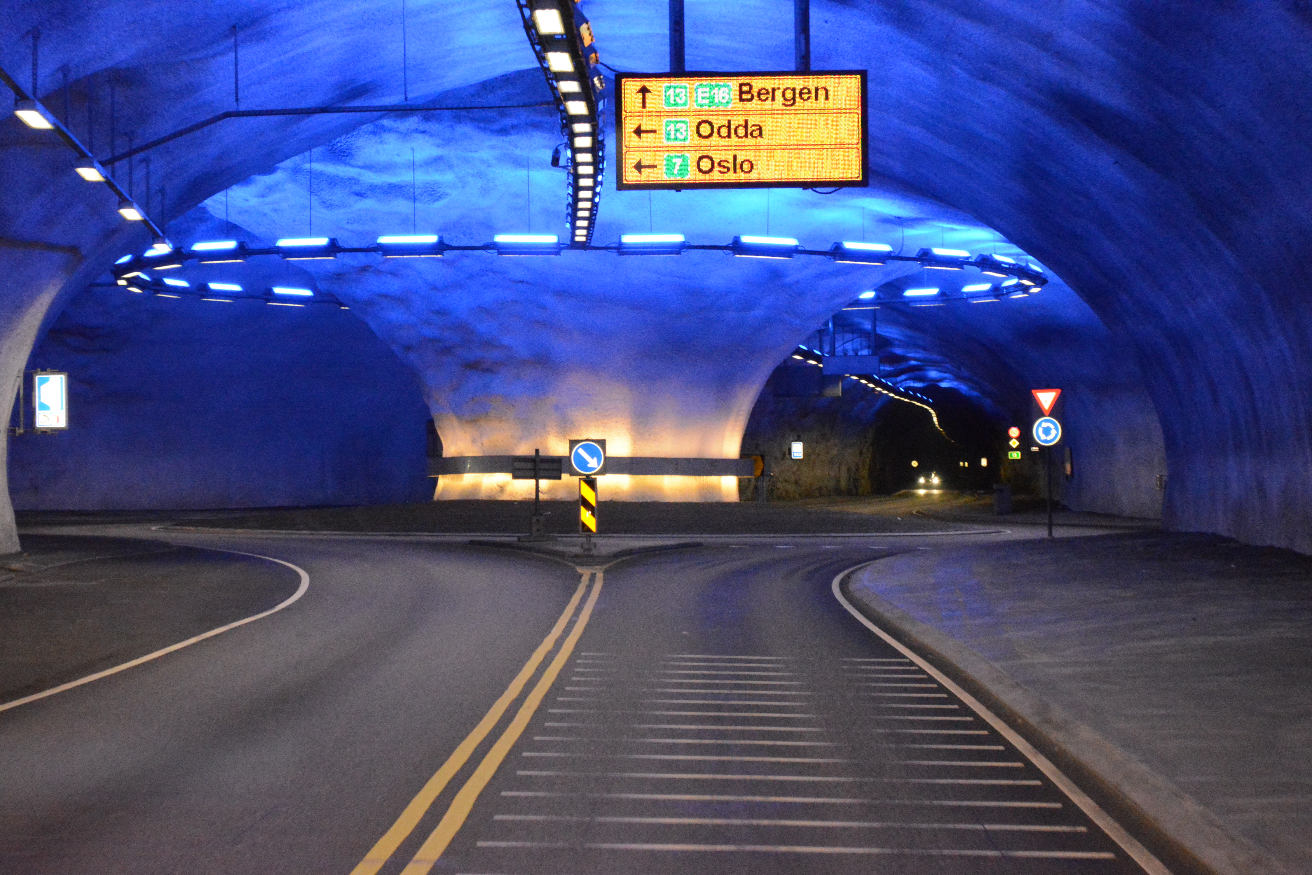 Roundpoint in a gallery